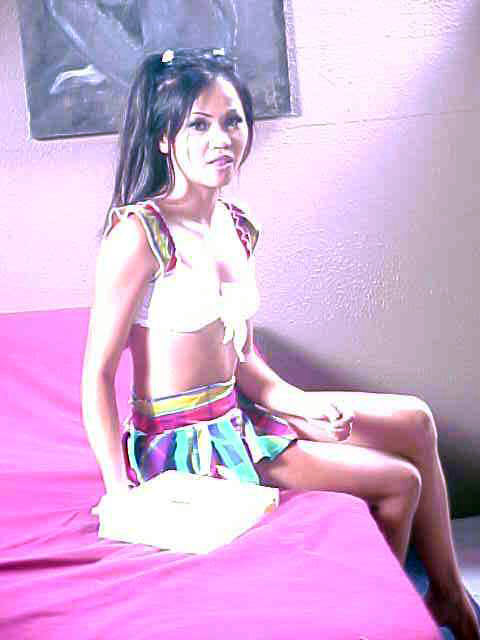 Sabrine Maui, taken behind-the-scenes on the set of the film Sopornos 4